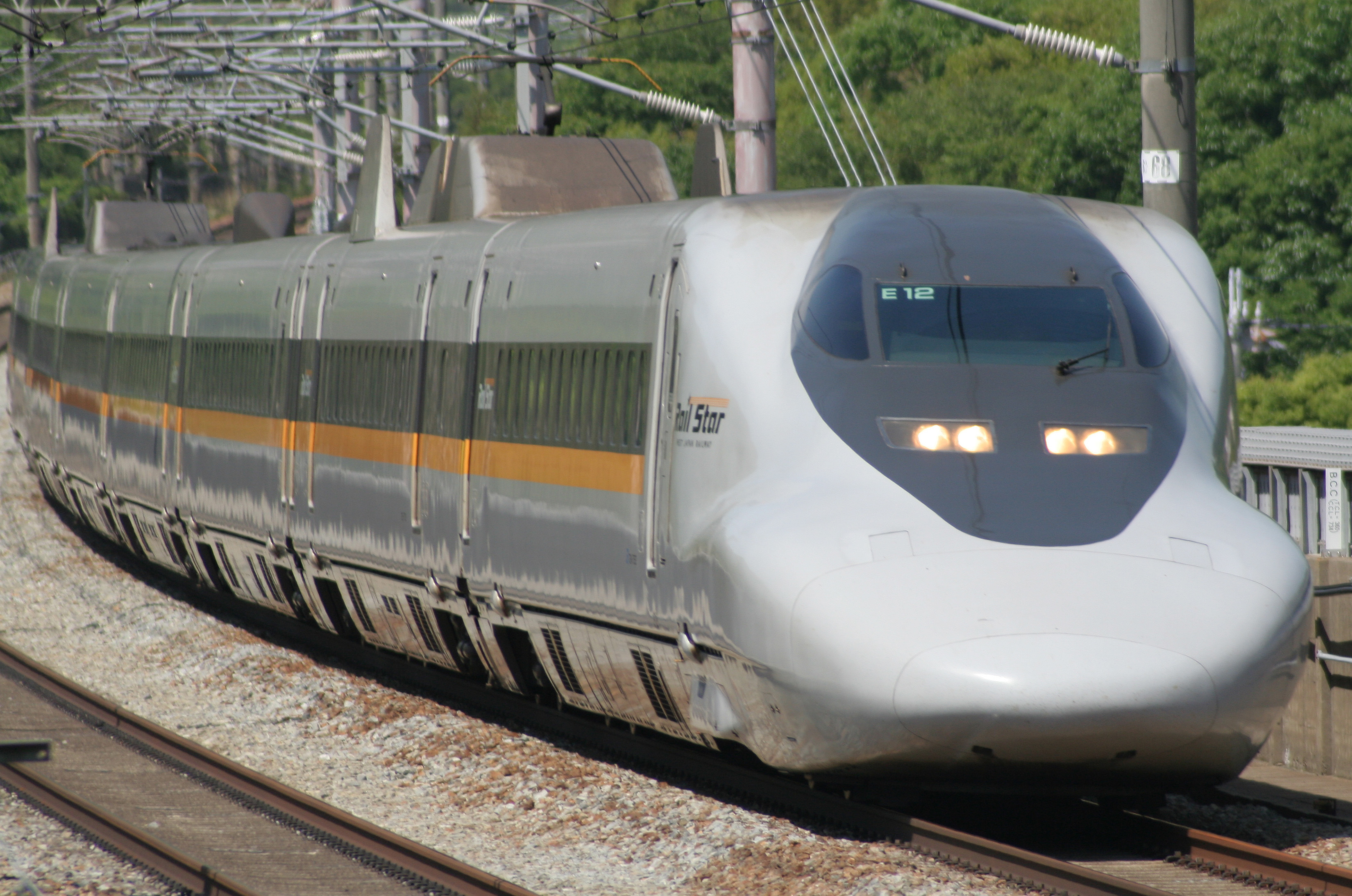 JR West 700-7000 series shinkansen set E12 between Okayama and Aioi on a Hikari Rail Star service